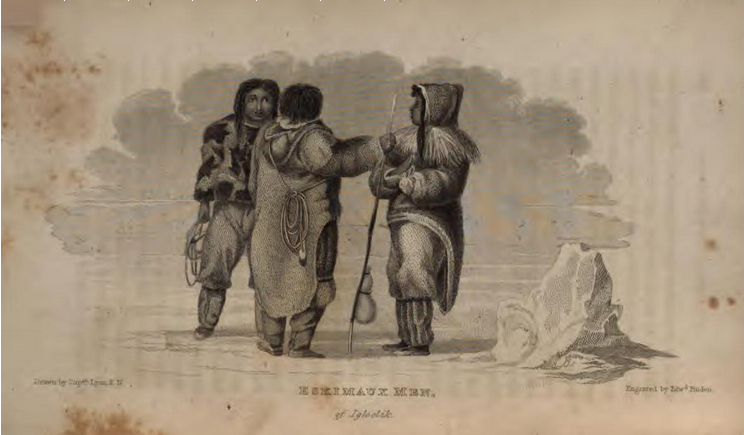 "Eskimaux men of Igloolik"